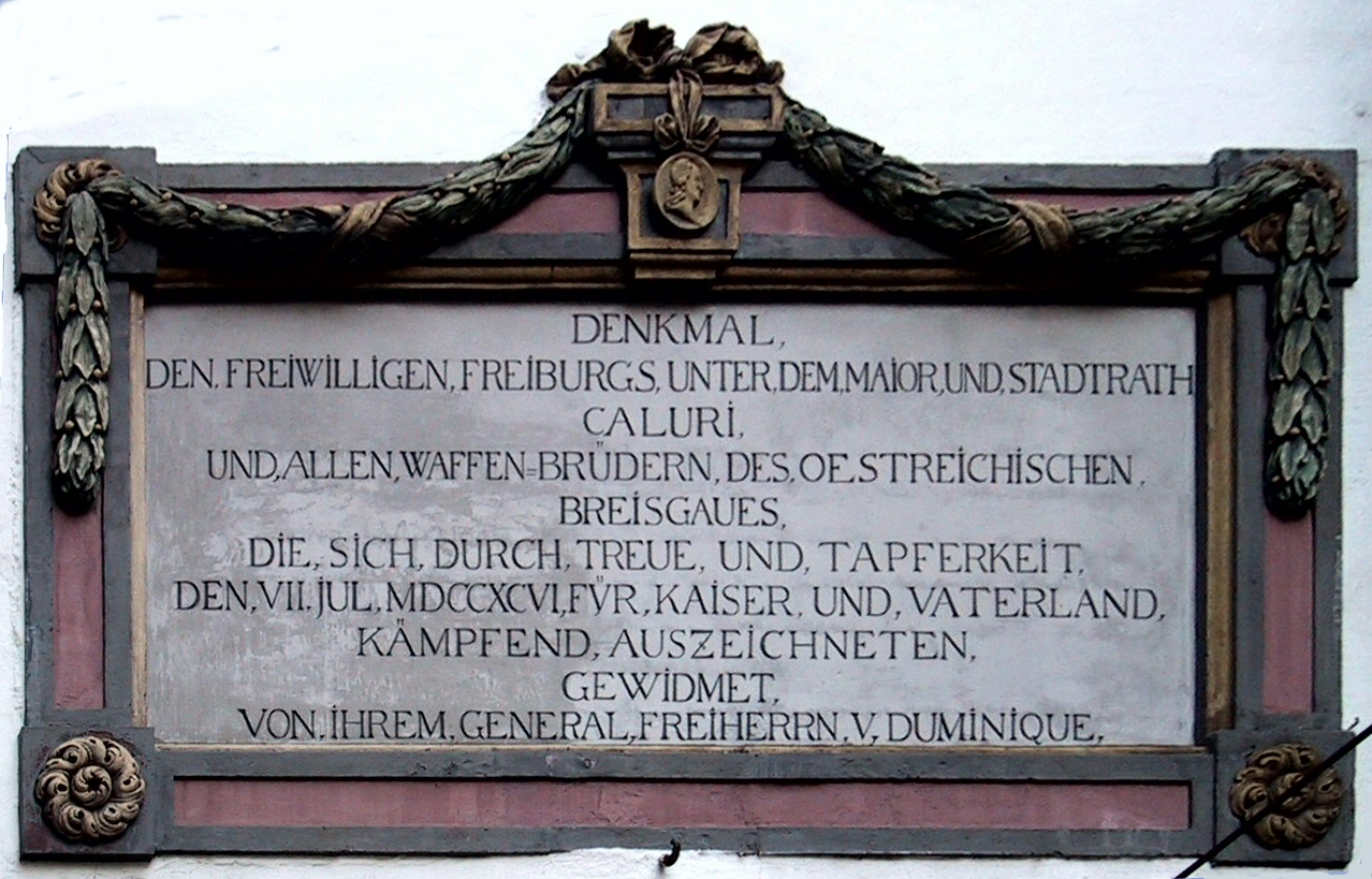 Plate at the Martin's Gate commemorating the soldiers who died for Emperor and Fatherland fighting against the French revolutionary armies in 1796